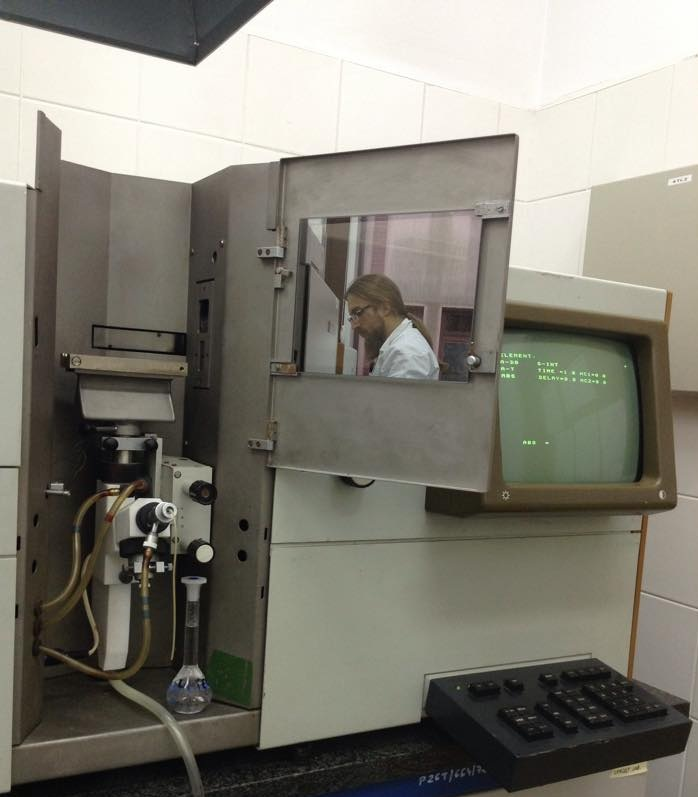 The photo represents a scientist preparing samples calibration curve solutions for Atomic Absorption Spectroscopy, whose reflection can be seen in the glass window of the AAS's flame atomizer cover door.